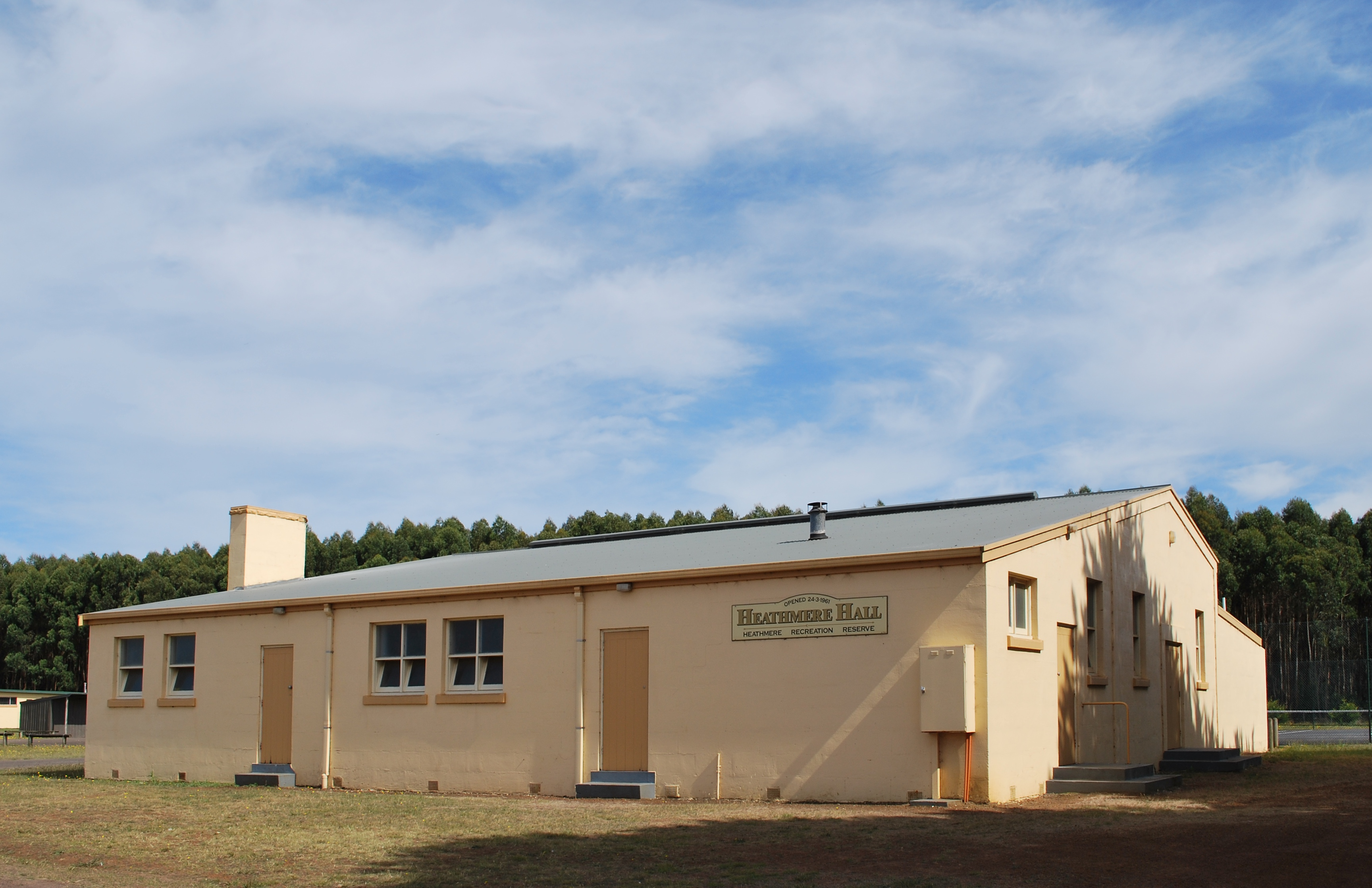 Public hall at Heathmere, Victoria